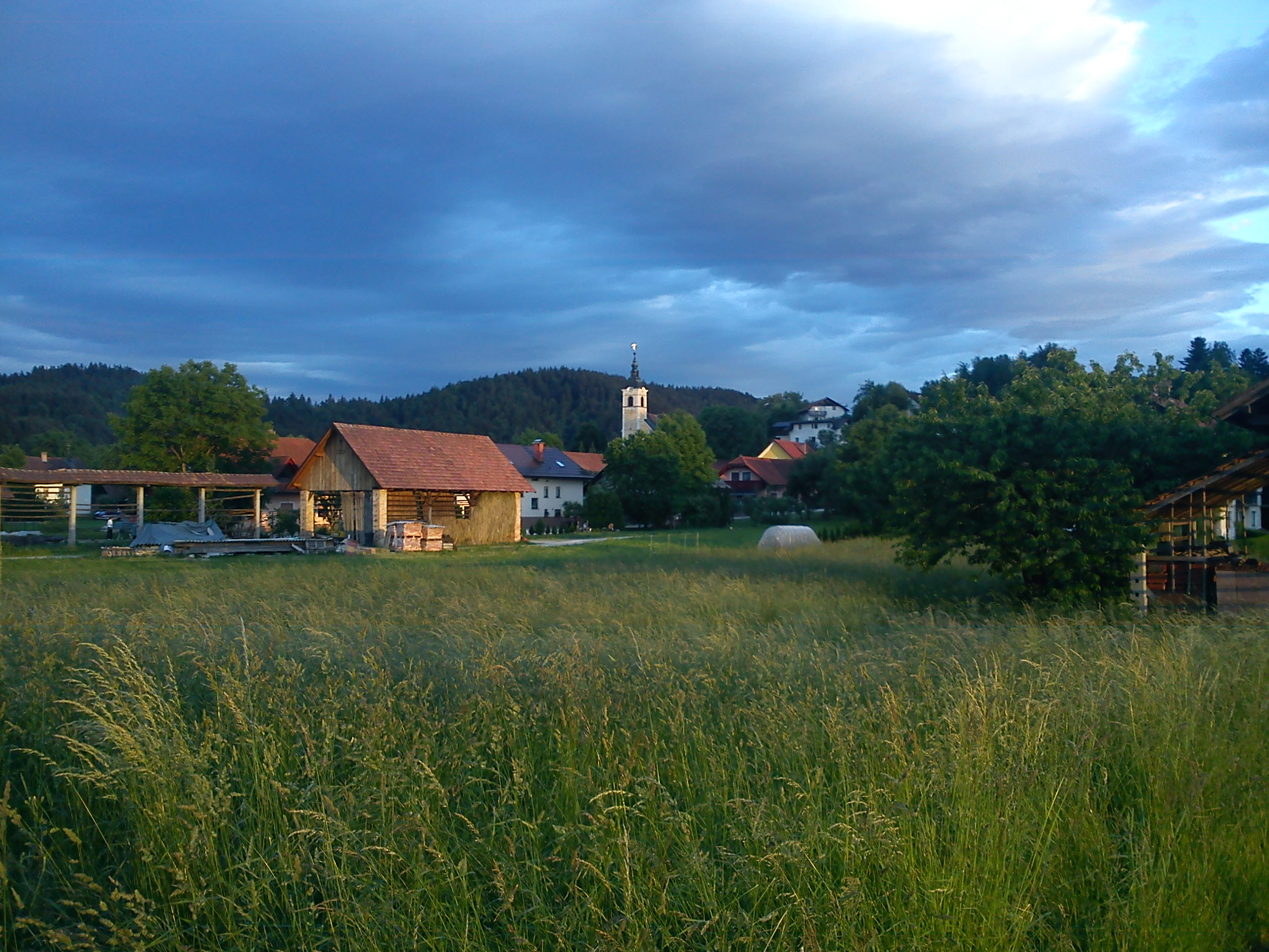 Village Bizovik near Ljubljana, Slovenia.